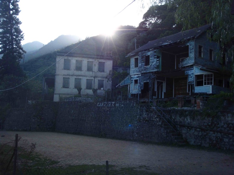 The old American Consulate at El Rosario and the entrance to La Tigra National Park.